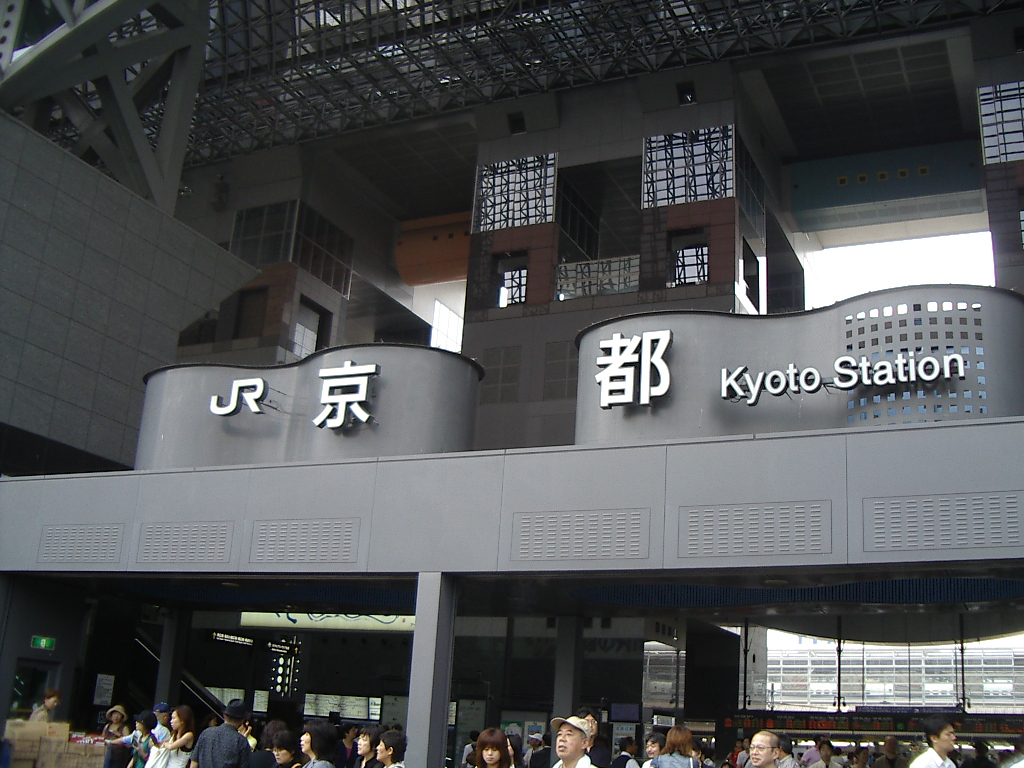 JR Kyoto Station at Daytime.